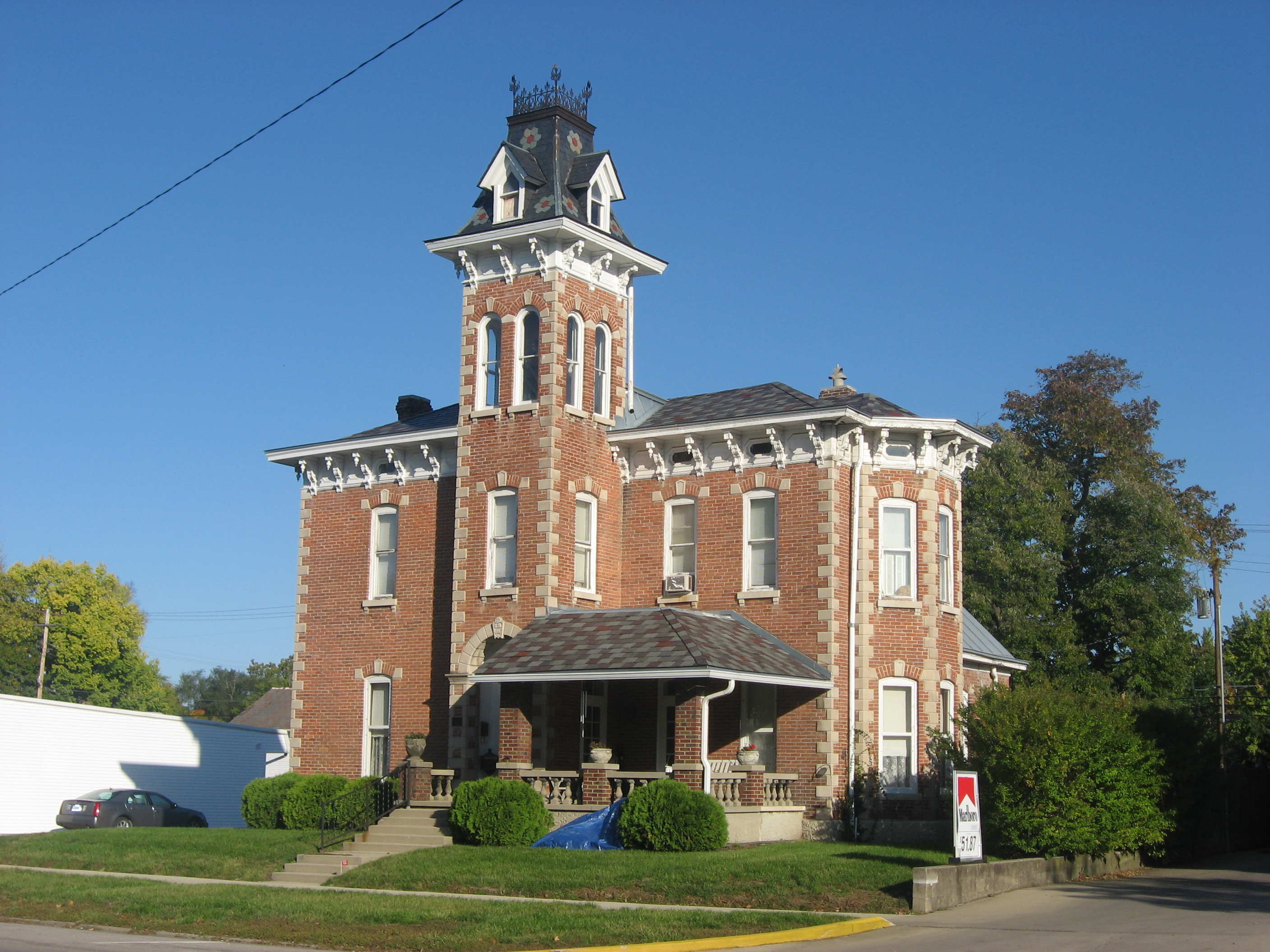 Front of the Elias Hinshaw House, located at 16 W. Main Street (U.S. Route 40) in Knightstown, Indiana, United States. Built in 1883, it is listed on the National Register of Historic Places, and it is part of a Register-listed historic district, the Knightstown Historic District.